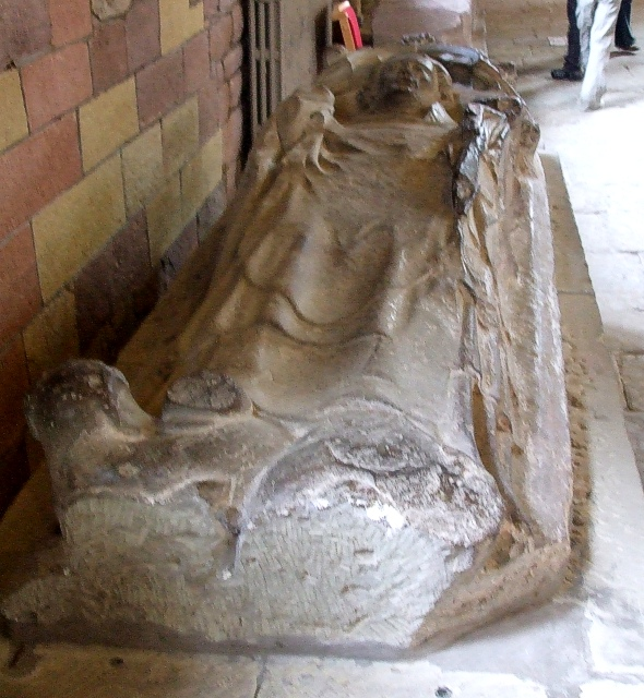 Effigy of Anian II. This effigy of Anian II lies against the south wall of the south aisle of Eglwys Gadeiriol Llanelwy (Saint Asaph Cathedral). Bishop Anian II was bishop of St Asaph from 1268 to 1293 and was responsible for the rebuilding of the cathedral after it was destroyed by the soldiers of Edward I.